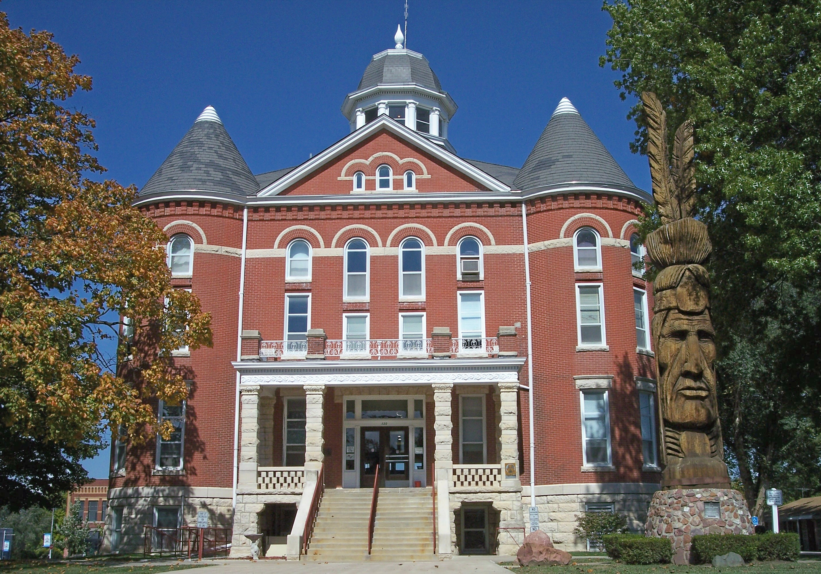 The Doniphan County, Kansas courthouse in Troy, Kansas. A 1979 sculpture by Peter Toth is at right.